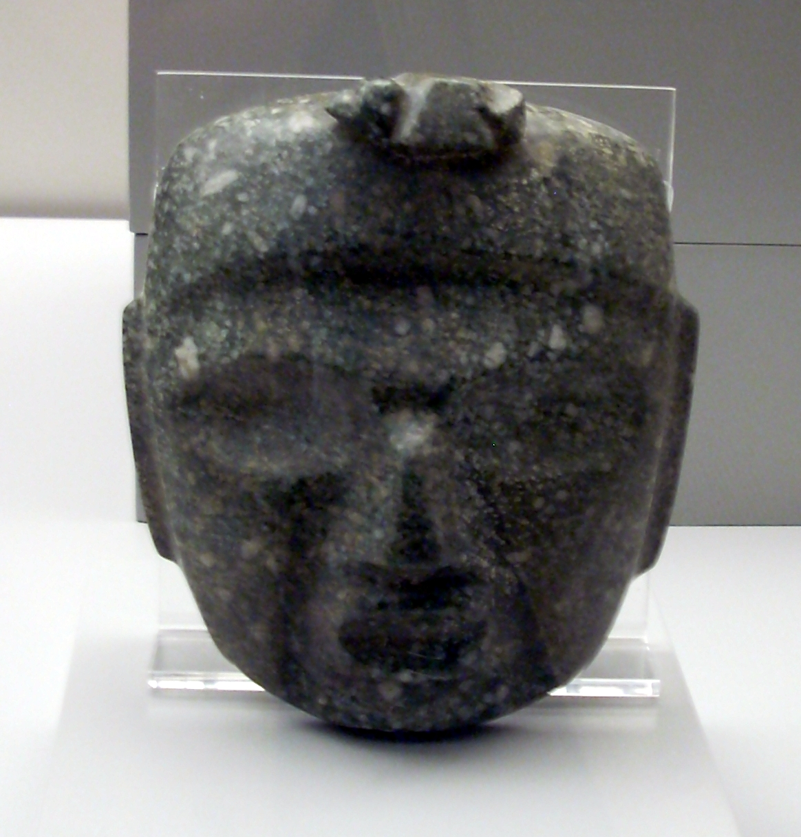 Mezcala culture stone mask from western Mexico. Late Preclassic (400 BC - 100 AD). Now in the Museum of the Americas, Madrid. Item 85/1/87.